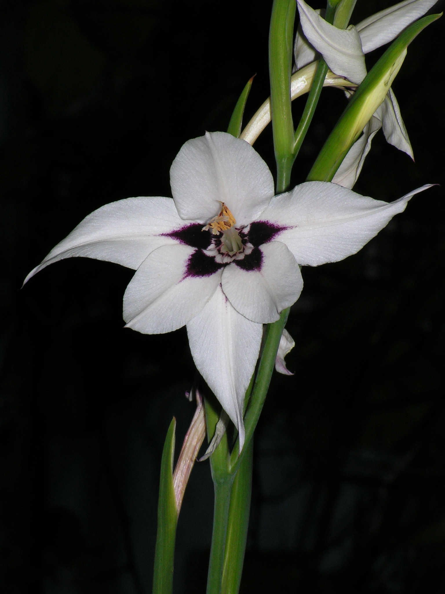 The flower of cultivated Gladiolus murielae. Moscow region, Russia.